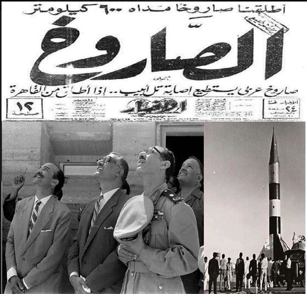 Al-Akhbar Egyptian rockets